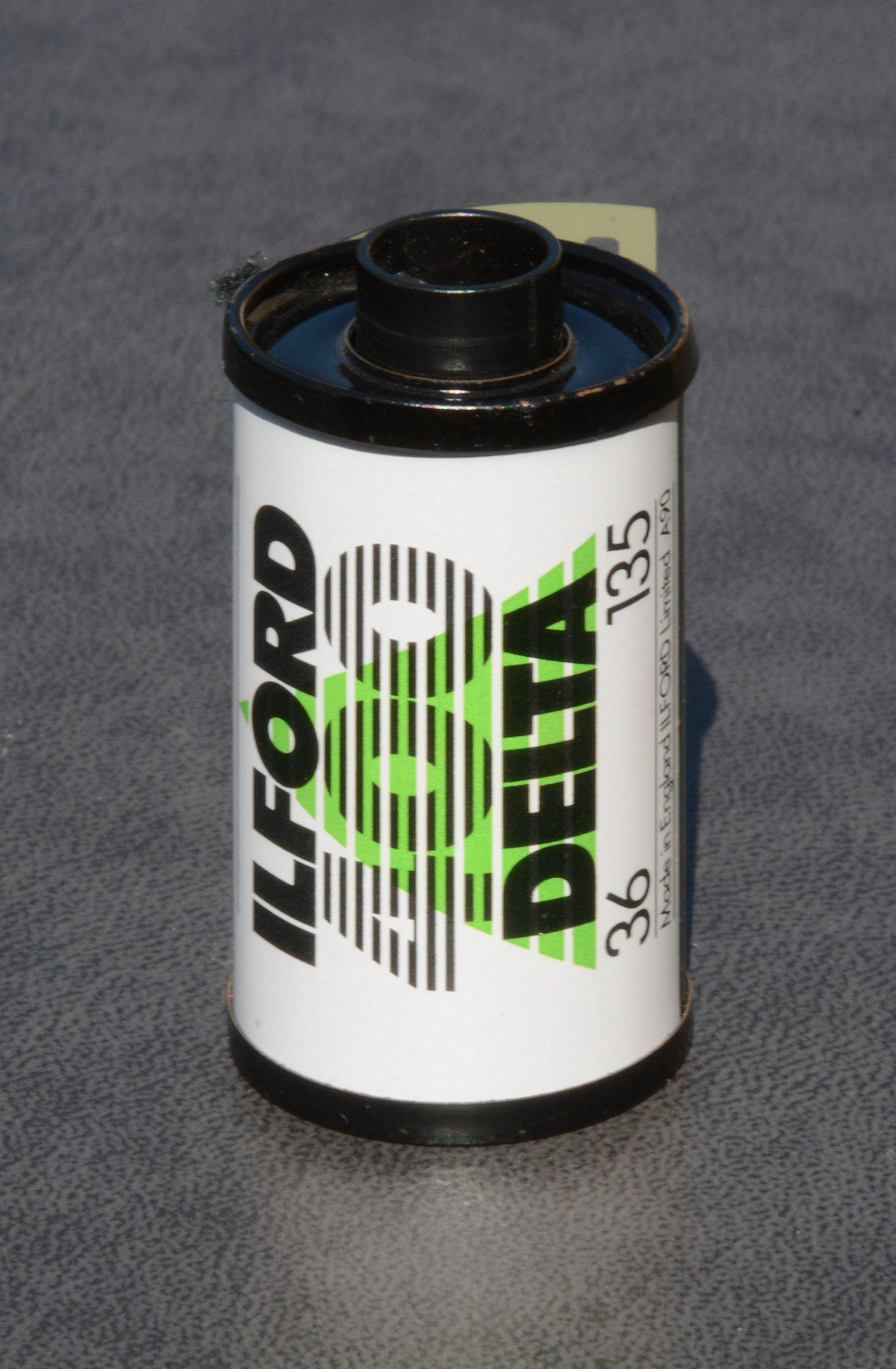 Ilford Delta 400 - Black & white film